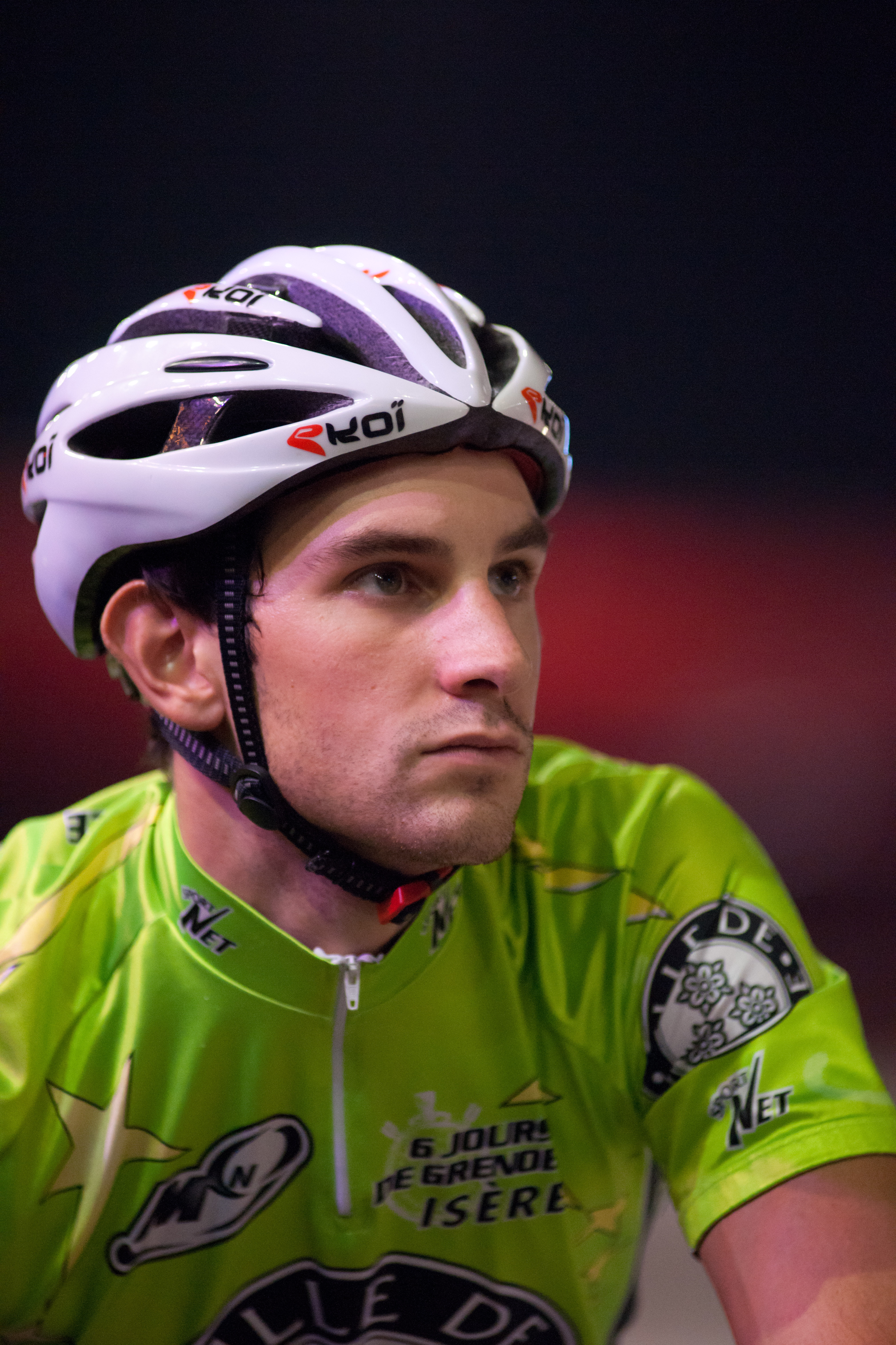 Morgan Kneisky at the Six Day of Grenoble.jpg